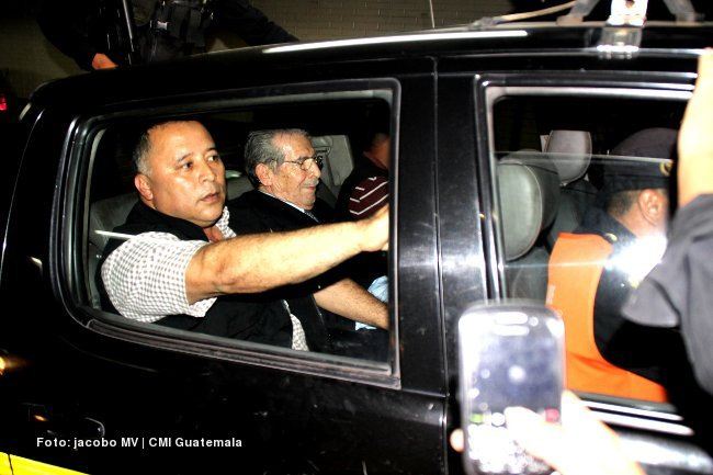 Ex general Efraín Ríos Montt in police car with guards five days after being condemned for genocide in Guatemala City.